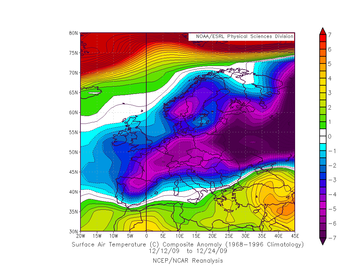 Surface temperatures anomalies for Europe, from December, 12 2009 to December, 24 2009, showing the first cold wave of the 2010 european winter.